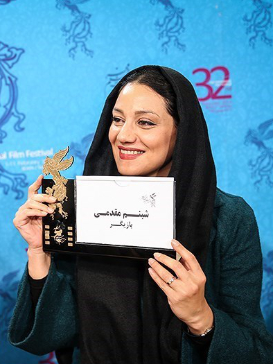 Shabnam Moghaddami in the press conference of Today(film).